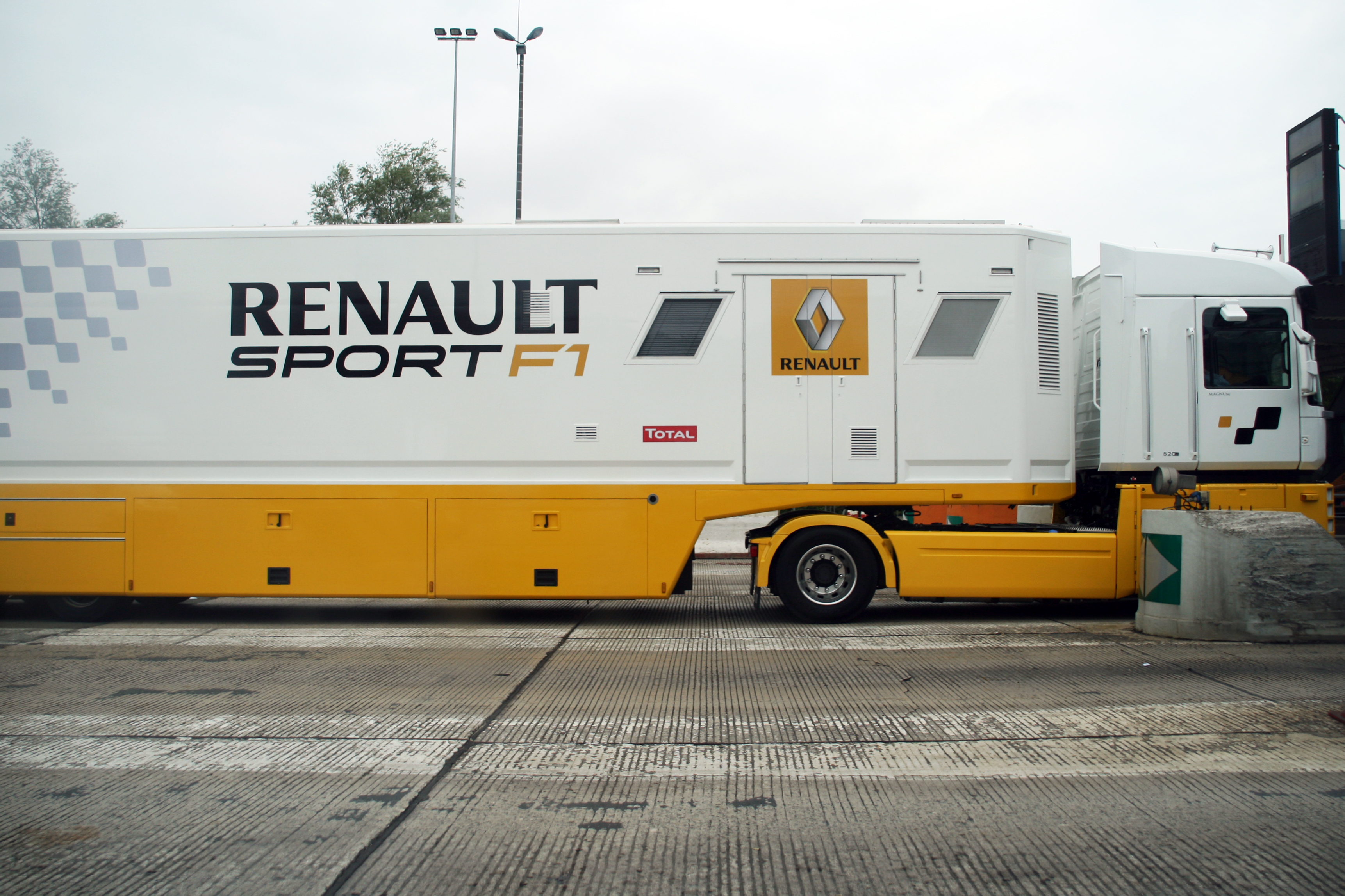 A Renault Sport F1 Truck on the A26 near Calais, France.